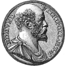 Woodcut of medal by Steven van Herwijk. Bust of Edmund Withipoll, in toga, pointed beard, head uncovered, bald. Inscribed Edmvnd Withipoll. Aet. 48. Stops, lozenges. On truncation, 1562. From Hawkins, Edward, Medallic illustrations of the history of Great Britain and Ireland to the death of George II. Volume I. Edited by Augustus W. Franks & Herbert Appold Grueber The British Museum, 1885.